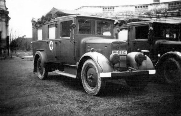 Phänomen Granit 25H ambulance of the Wehrmacht before World War II